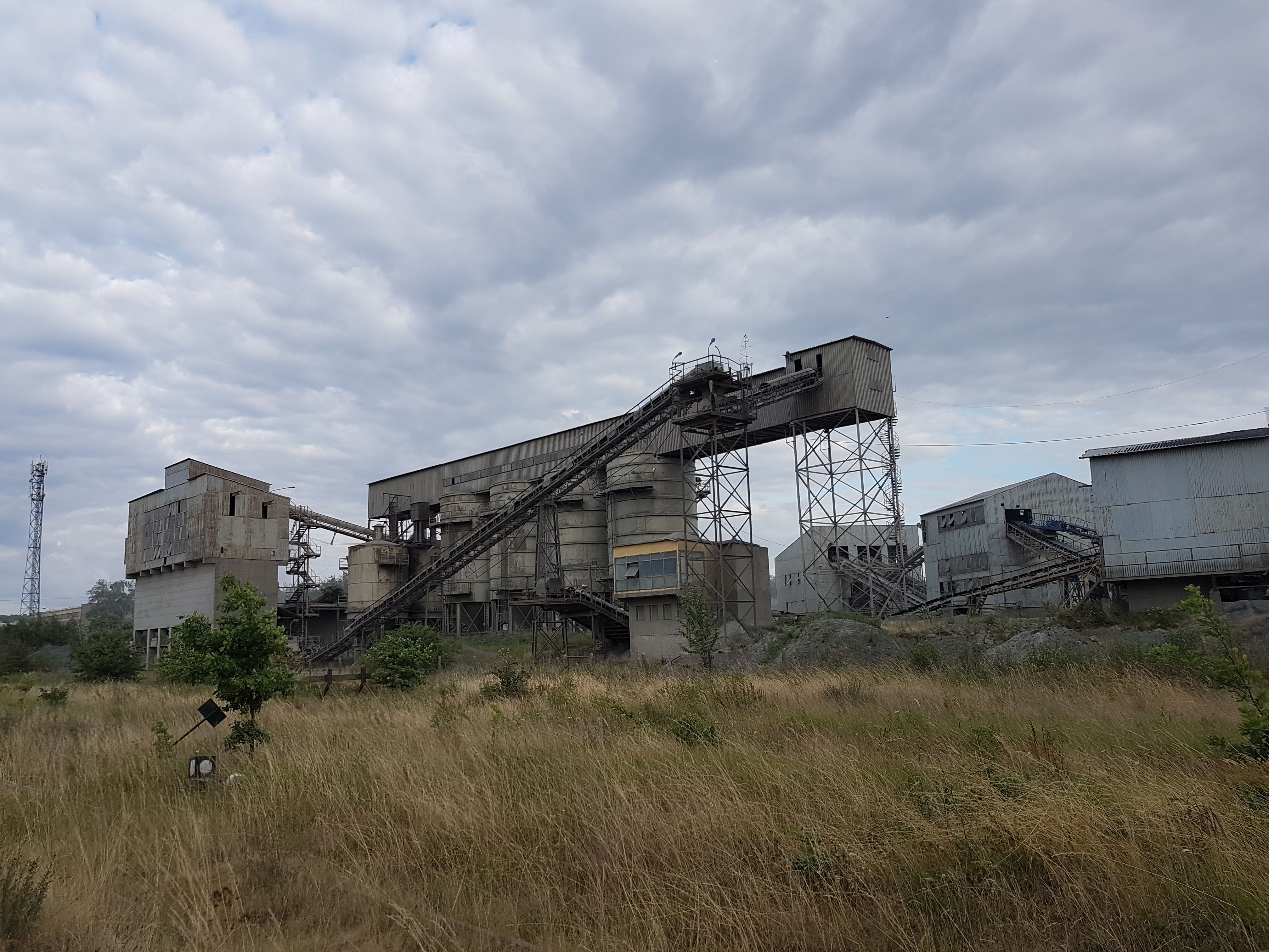 Basalt quarry in Gracze, near Opole, Poland